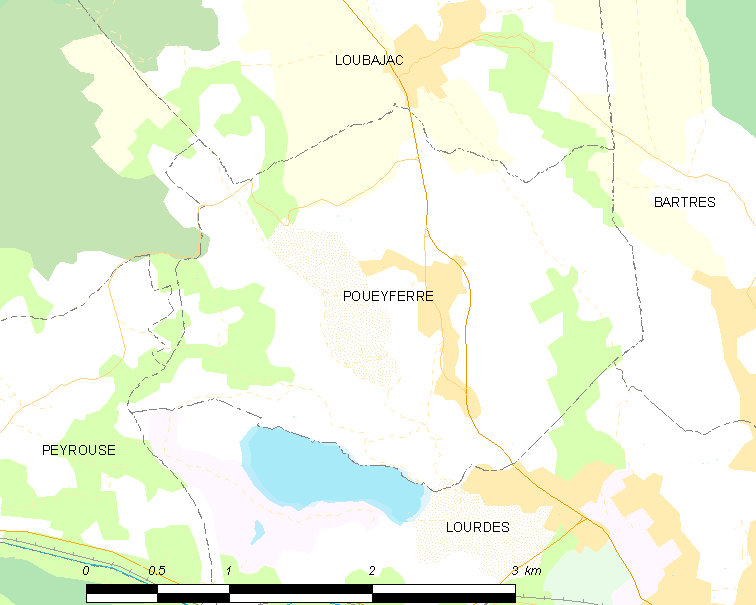 Map of French municipality